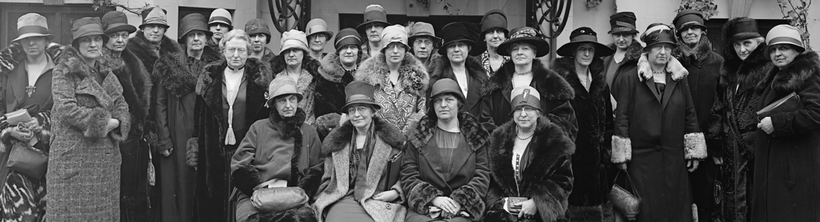 Title: General Federation of Women Club, N Street, Washington DC (detail of larger photo) Date Created/Published: [between 1918 and 1928] Medium: 1 negative : glass ; 8 x 10 in. or smaller Part of: National Photo Company Collection (Library of Congress) Reproduction Number: LC-DIG-npcc-33171 (digital file from original) Rights Advisory: No known restrictions on publication. Call Number: LC-F82- 2533 [P&P] Repository: Library of Congress Prints and Photographs Division Washington, D.C. 20540 USA